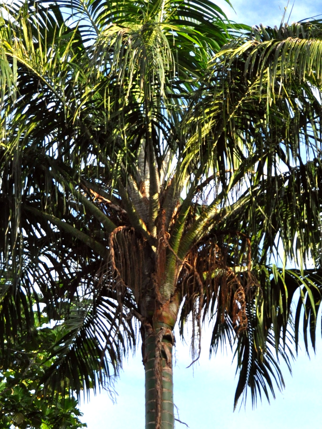 White wanga (Pigafetta filaris); fronds. Waigeo, Raja Ampat, West Papua, Indonesia.